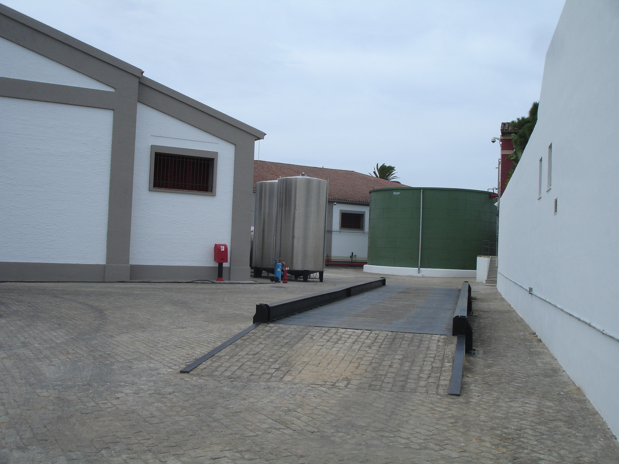 Weight for trucks. Bodegas Valdivia sherry company, Jerez de la Frontera. Andalusia (Spain)